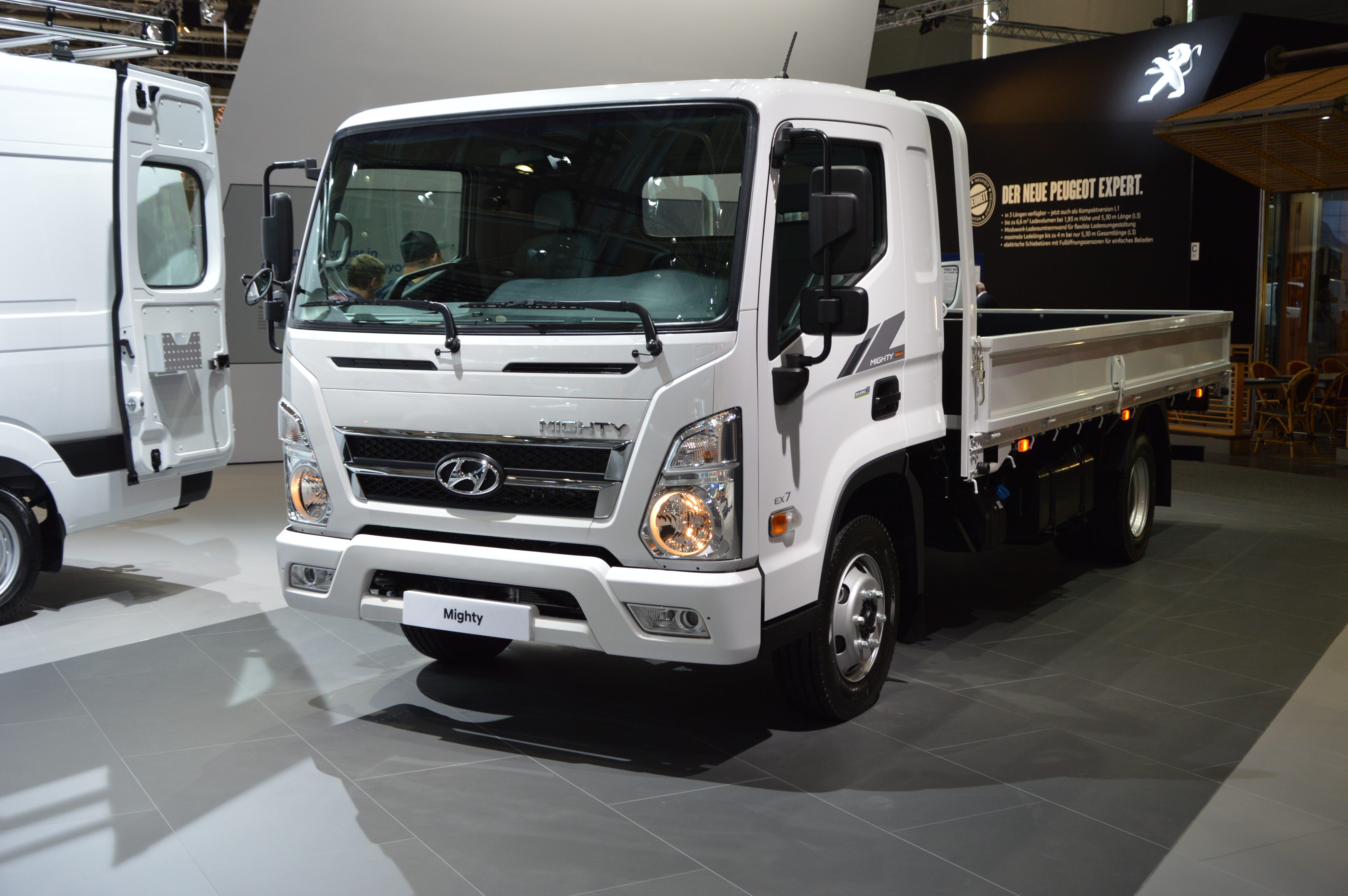 Hyundai Mighty 4x2 Cargo. Gross vehicle weight: 7.200 kg. Truck not available in the European market.